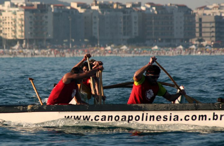 Paddlers practicing Polynesian Canoe in Rio